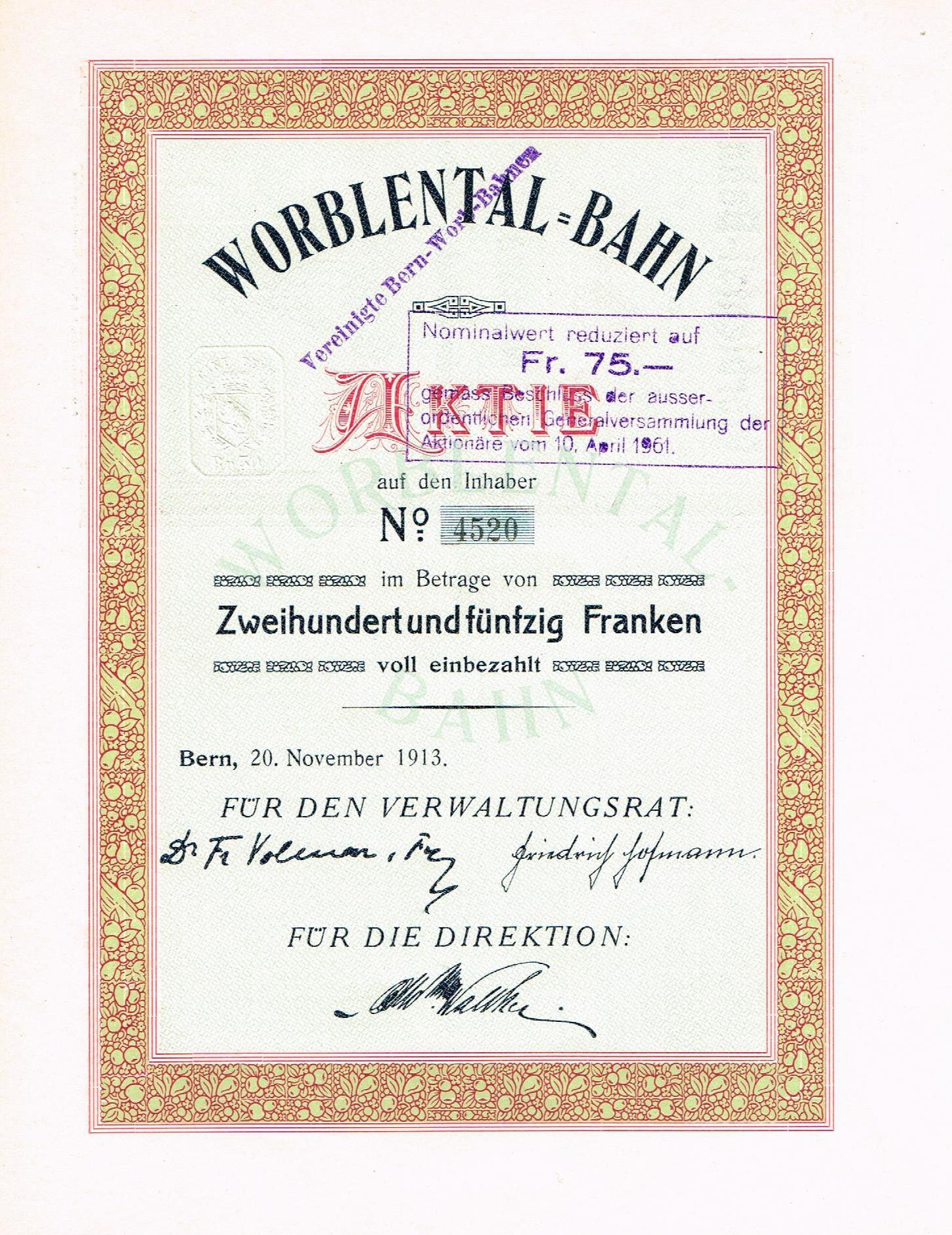 Share of the Worblental-Bahn, issued 20. November 1913